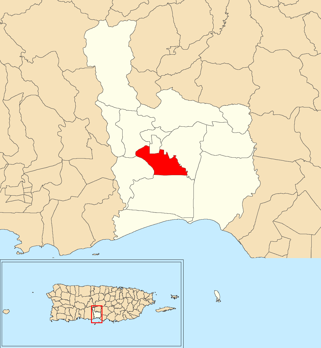 Amuelas, Juana Díaz, Puerto Rico locator map